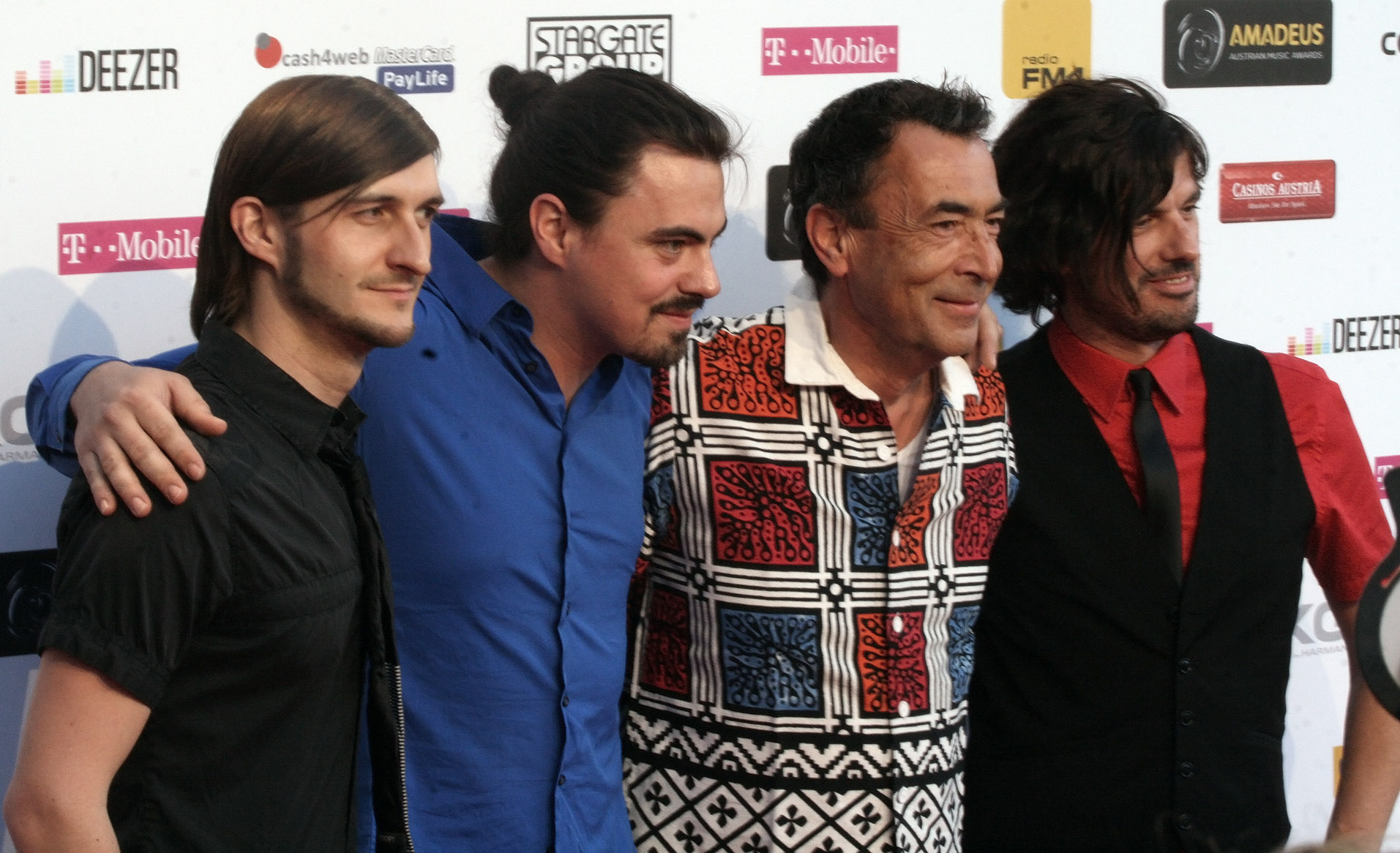 Hubert von Goisern and band (Alex Pohn, Severin Trogbacher, Helmut Schartlmüller), Amadeus Austrian Music Award 2012 at the Volkstheater in Vienna, Austria.